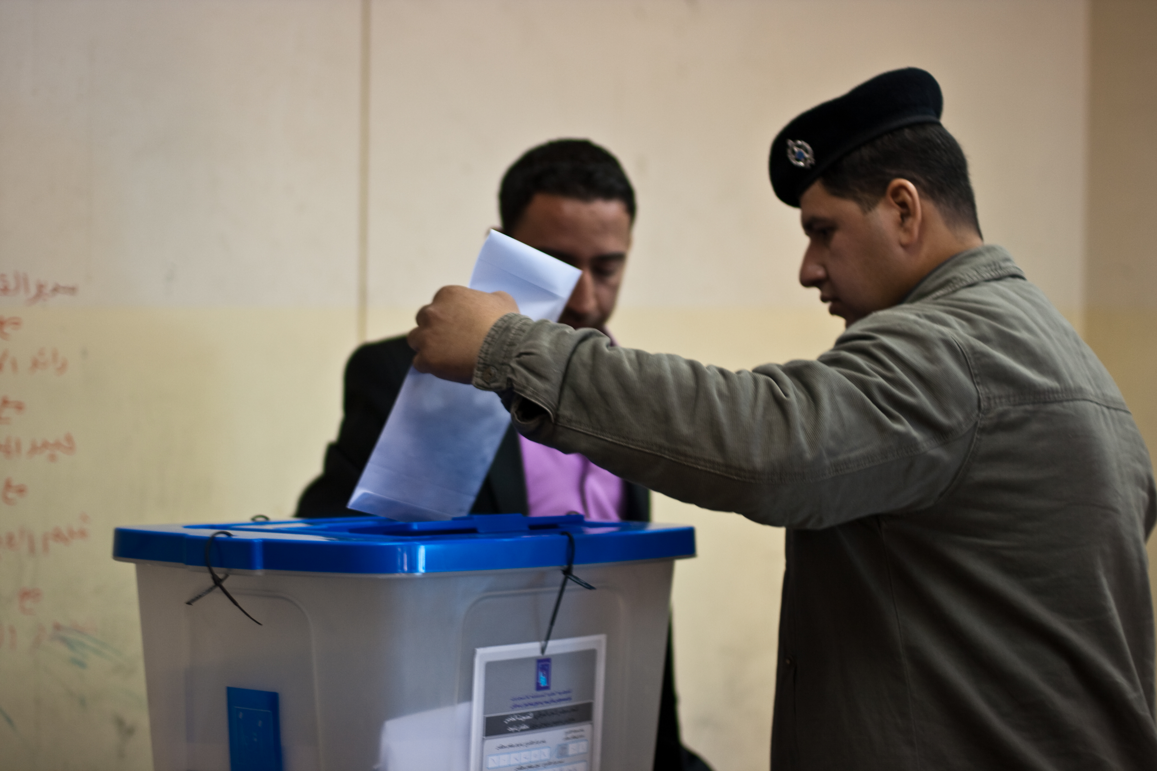 Security forces of Iraq vote earlier